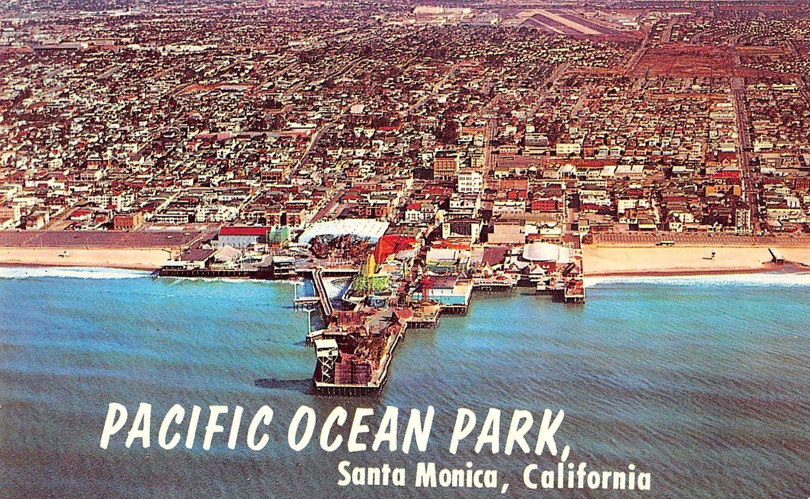 Postcard photo of an aerial view of Pacific Ocean park, Santa Monica, California.